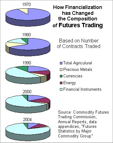 Futures Trading, U.S., Composition by Type of Futures Contract, 1970 to 2004